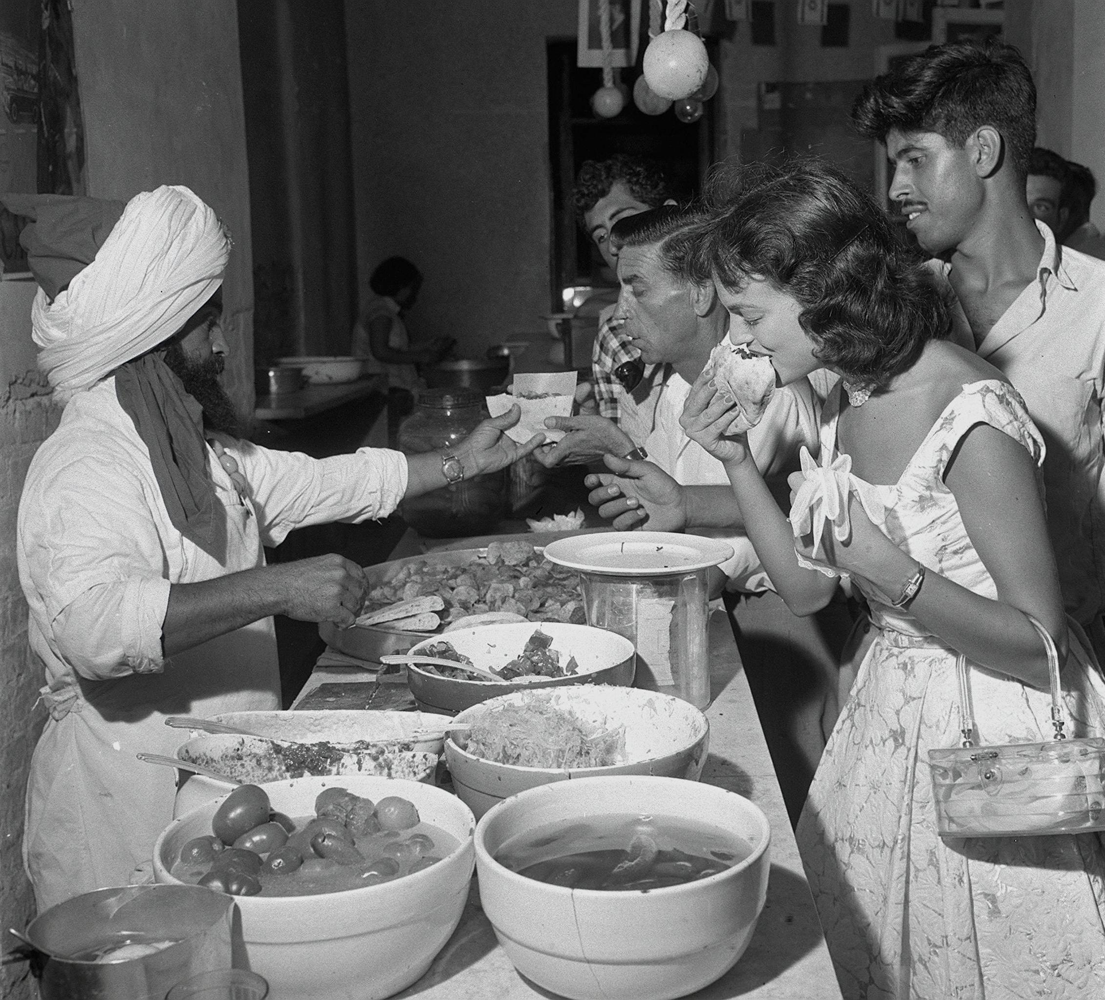 Original Description: "THE KING" OF FALAFEL, PINSKER ST. IN TEL AVIV.